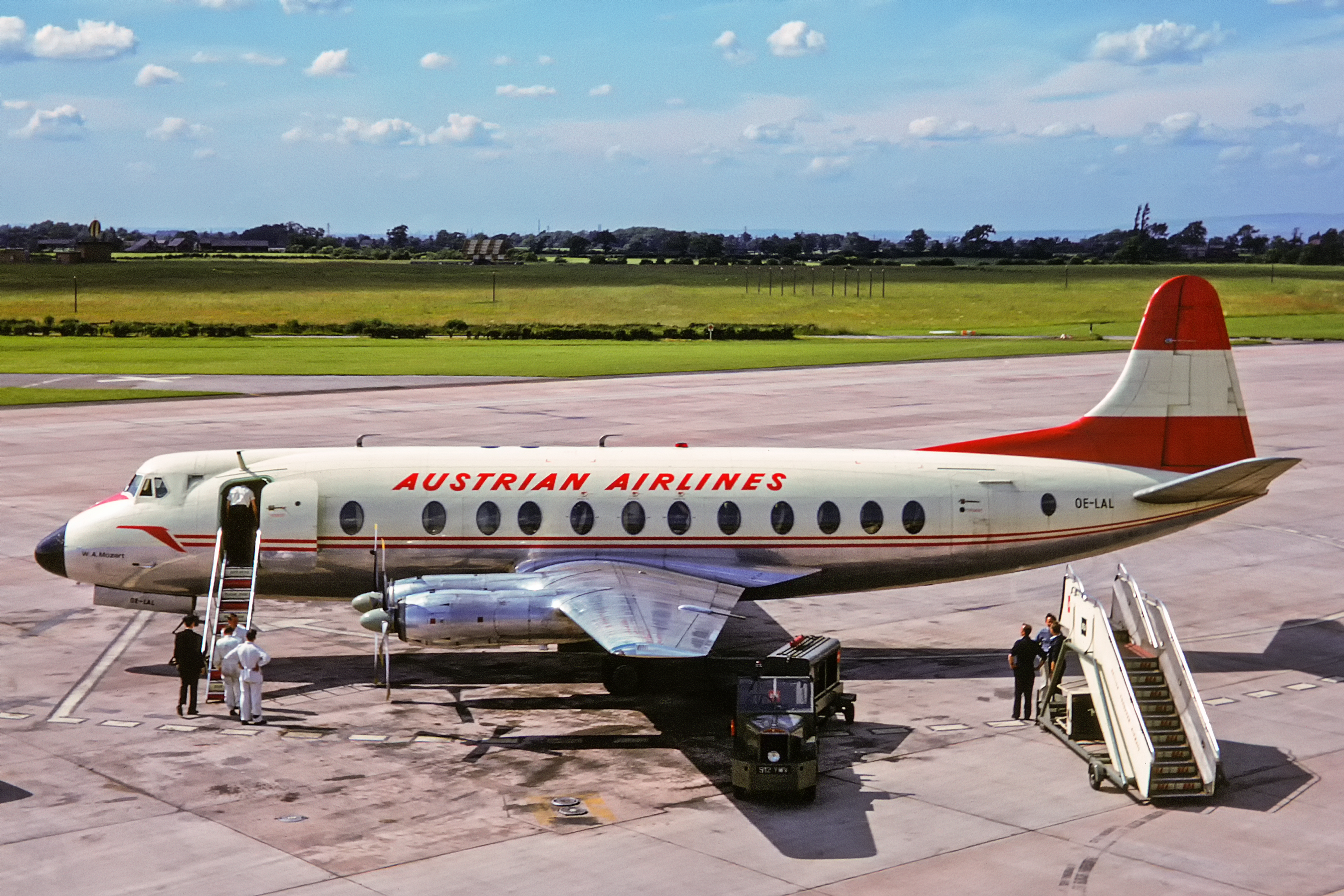 Austrian Airlines Vickers Viscount at Manchester Airport